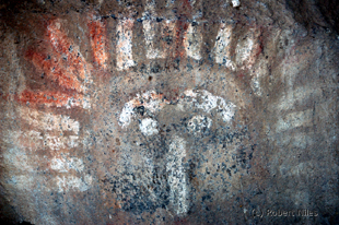 Indian Painted Rock. Photographer: Robert Niles, self